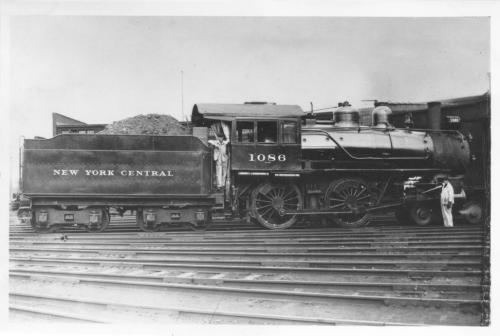 Formerly the 999.